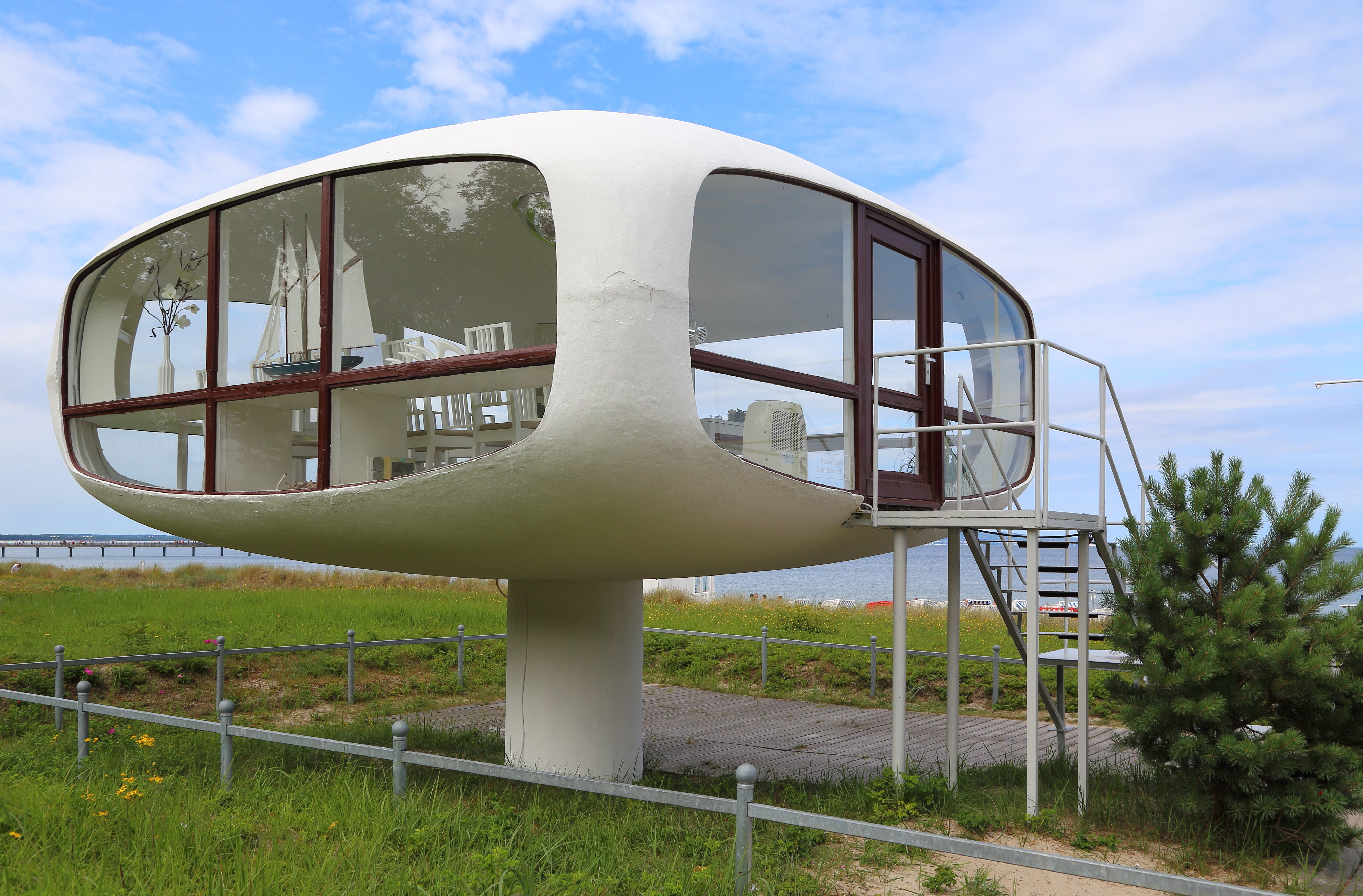 The former lifeguard station at the beach of Binz in Binz, Landkreis Vorpommern-Rügen, Mecklenburg-Vorpommern, Germany. The building was designed by architect Ulrich Müther and is now used for wedding ceremonies. It is a listed cultural heritage monument.